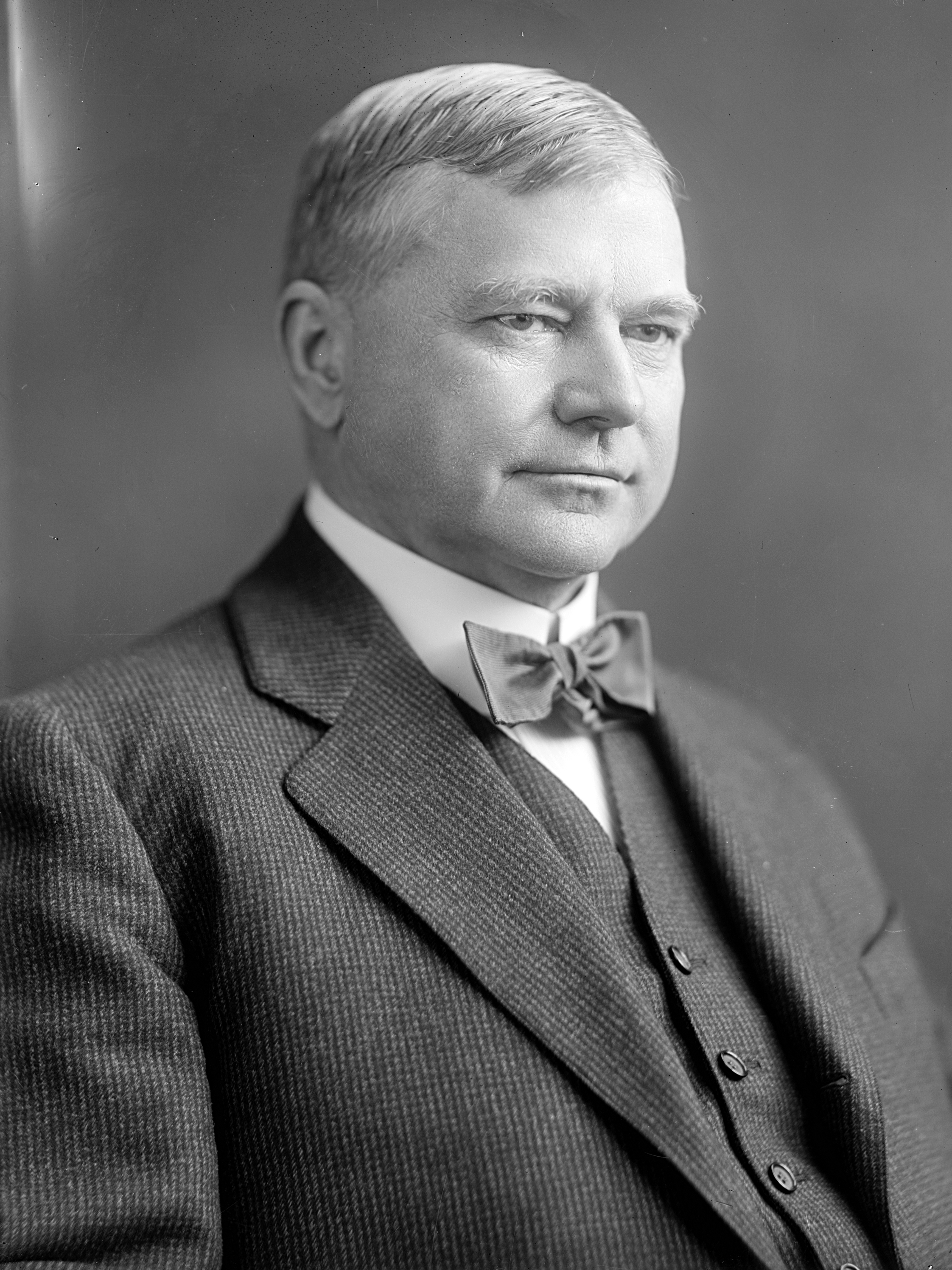 Henry Joseph Steele, US Representative from Pennsylvania